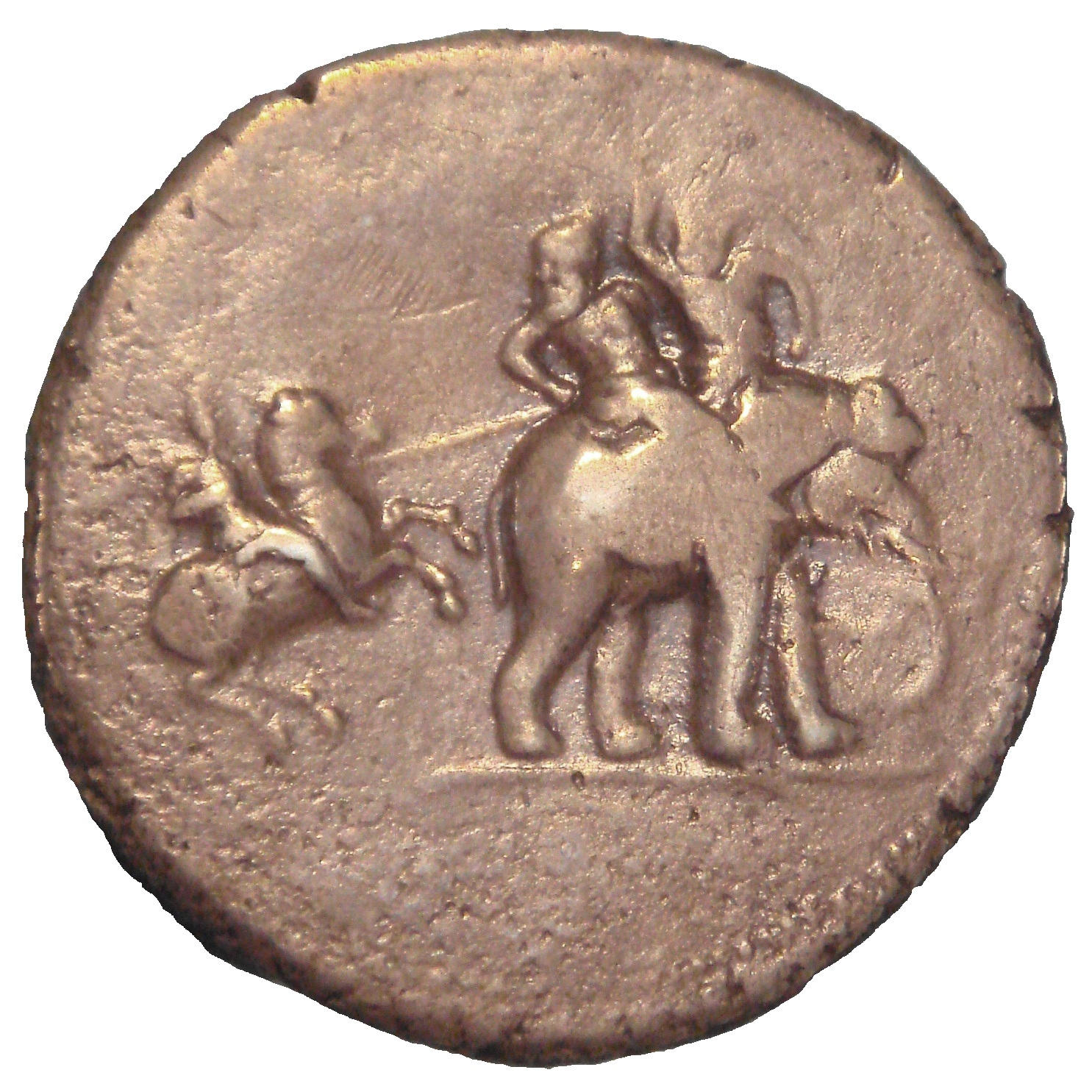 One of the famous "Victory coin of Alexander", minted in Babylon after Alexander's India campaigns.